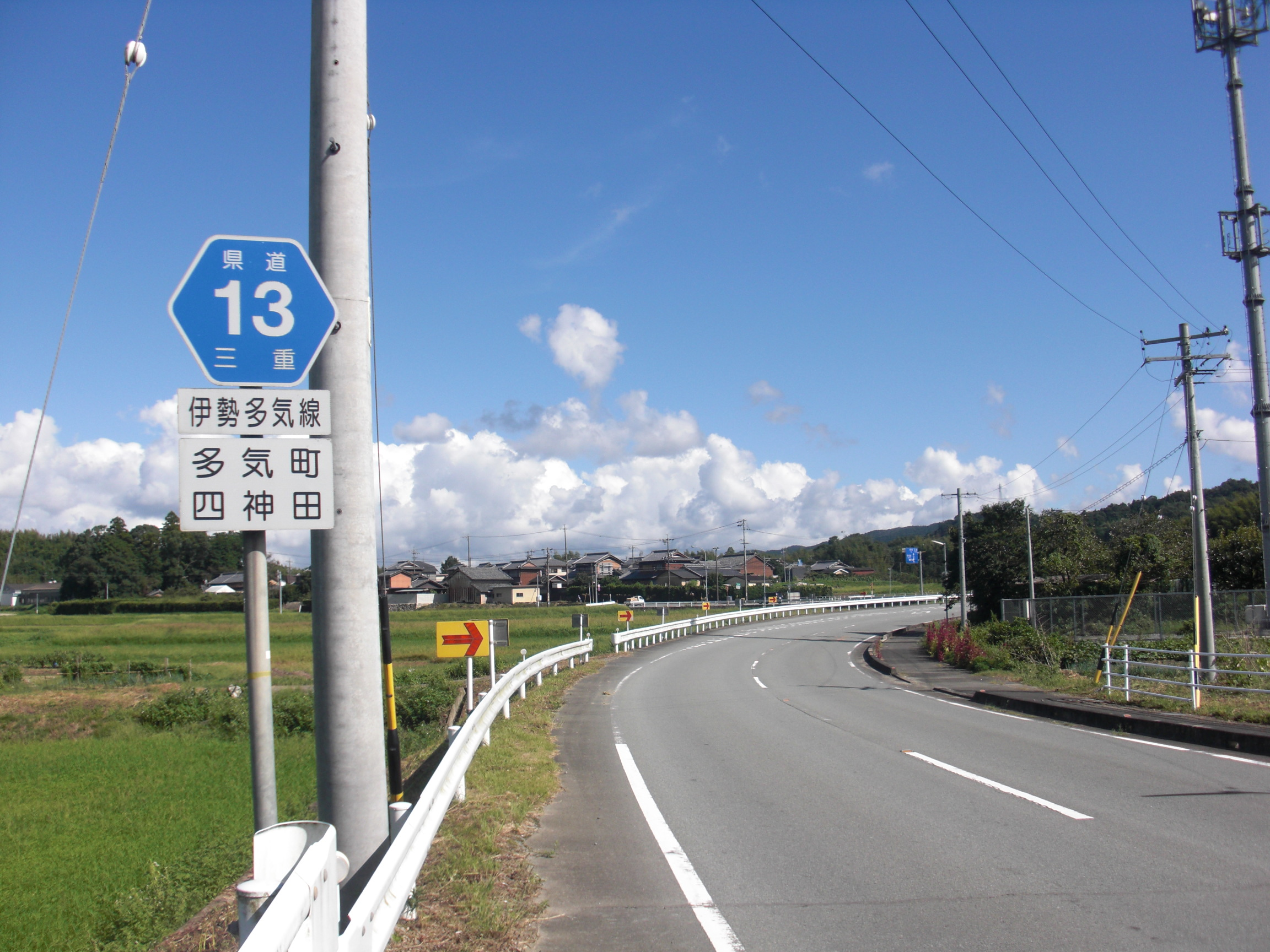 The Mie Prefectural Road Route 13 in Shikoda, Taki Town